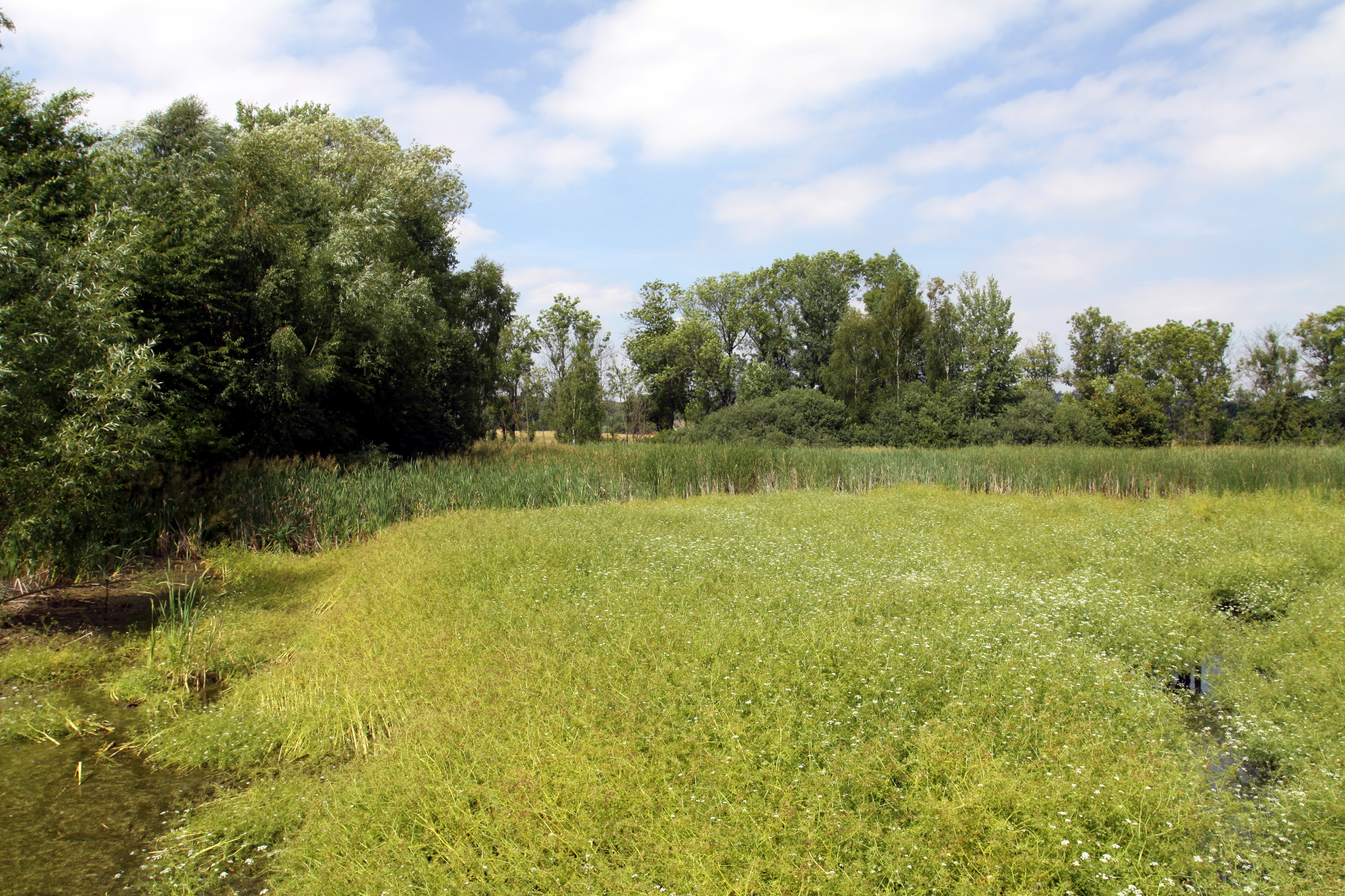 Natural monument Vápenické jezero in Příbram District, Czech Republic